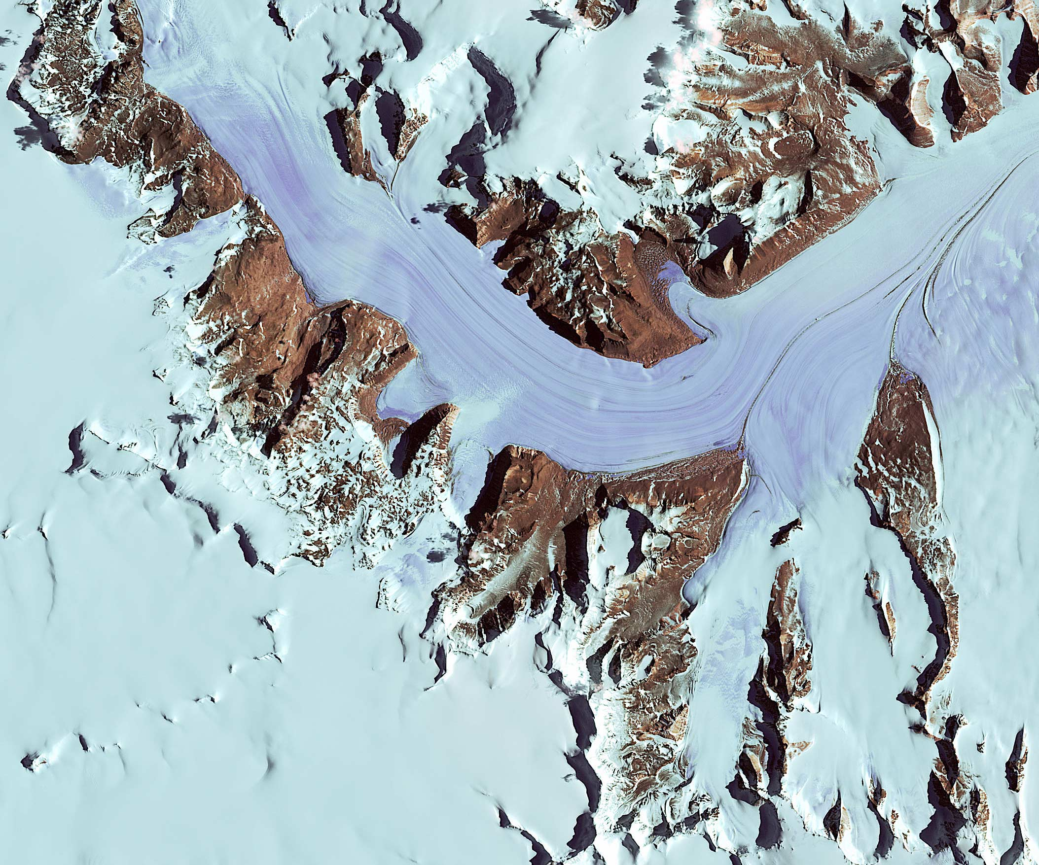 Satellite view of Antarctica showing part of Darwin Glacier to the north and to the south the deeply incised Hatherton Glacier and its tributaries.